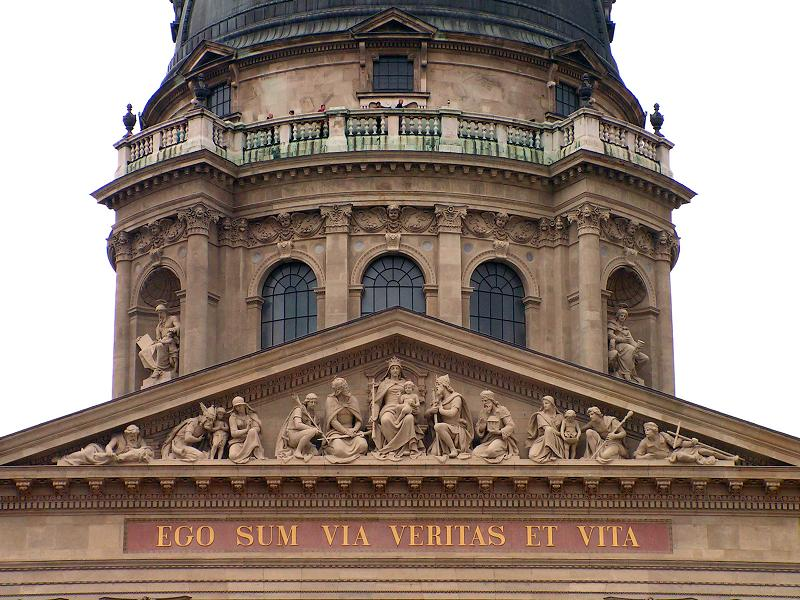 The Saint Stephen's Basilica in Budapest